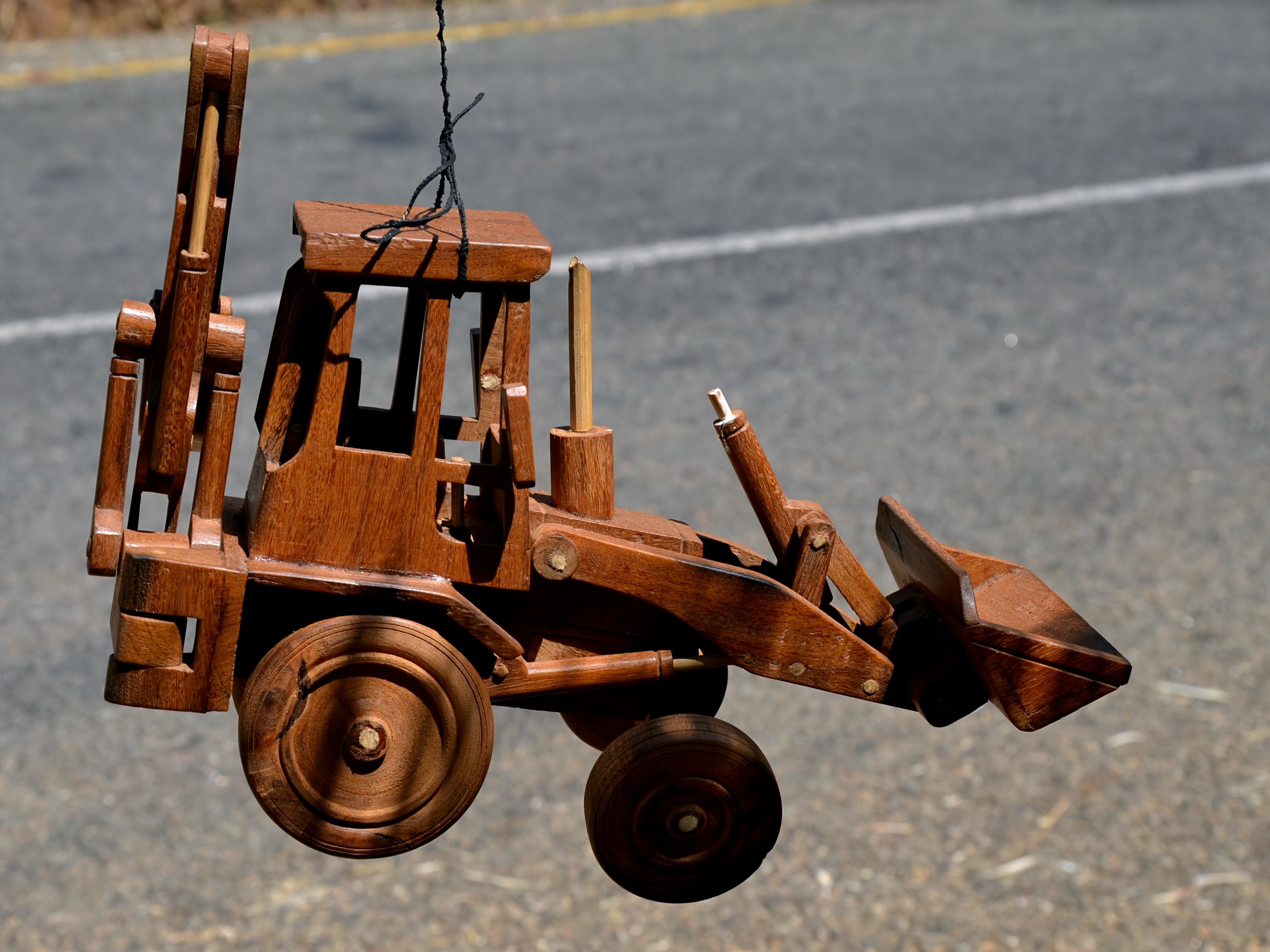 Wooden tractor for sale on the Dedza-Golomoti road, Malawi